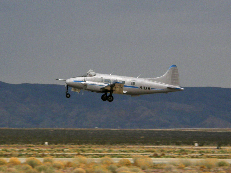 National Test Pilot School's DH.104 Dove 6A during takeoff from Mojave Airport